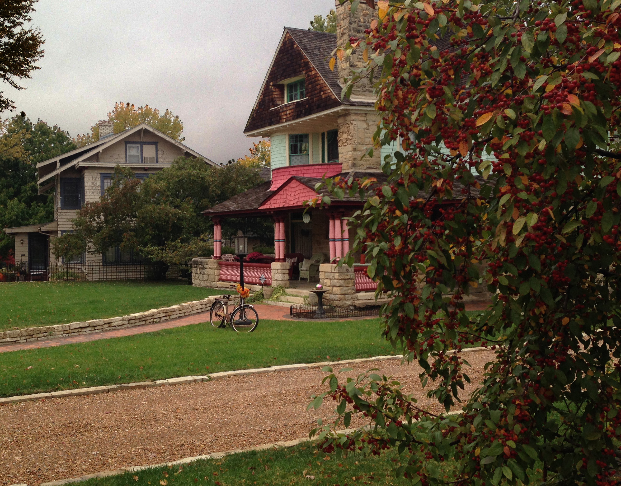 The Aviary, at 330 S. Circle Drive, designed and built as his own residence by architect George Bird